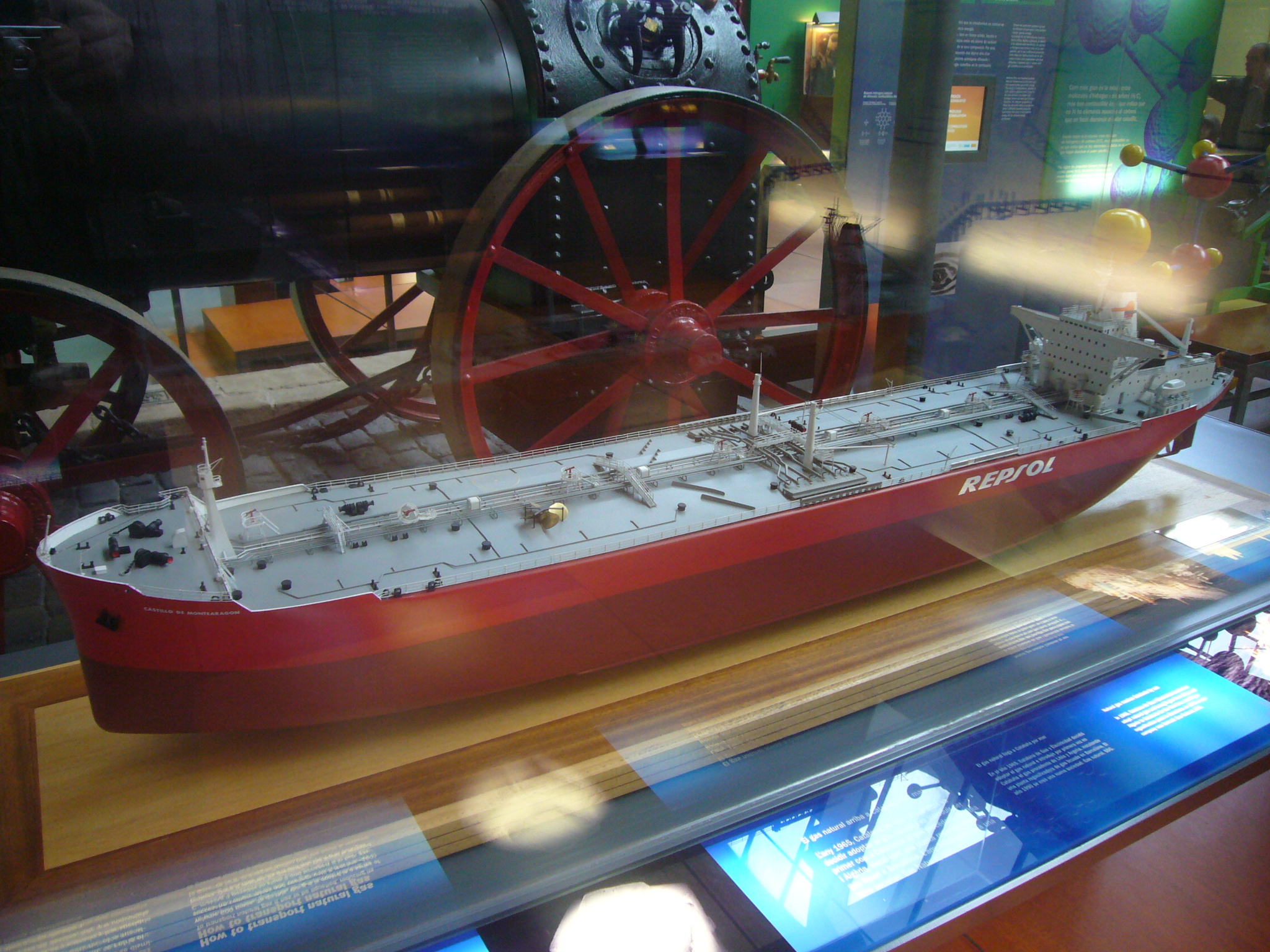 Model of a tanker used to transport natural gas. Named Castillo de Montearagon (IMO 7386996), by repsol. Displayed at mnactec